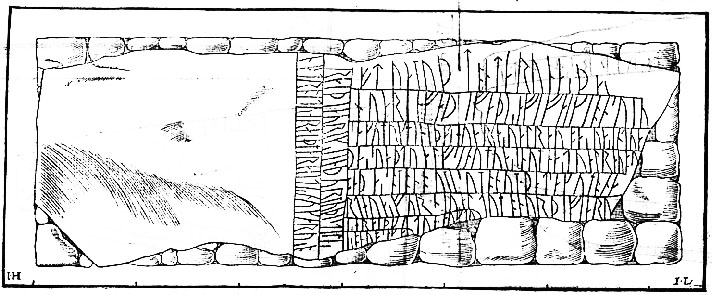 The Rök stone in Östergötland, Sweden, depicted by Johan Hadorph (1630-1693) and published in Johan Göranssons Bautil 1750.